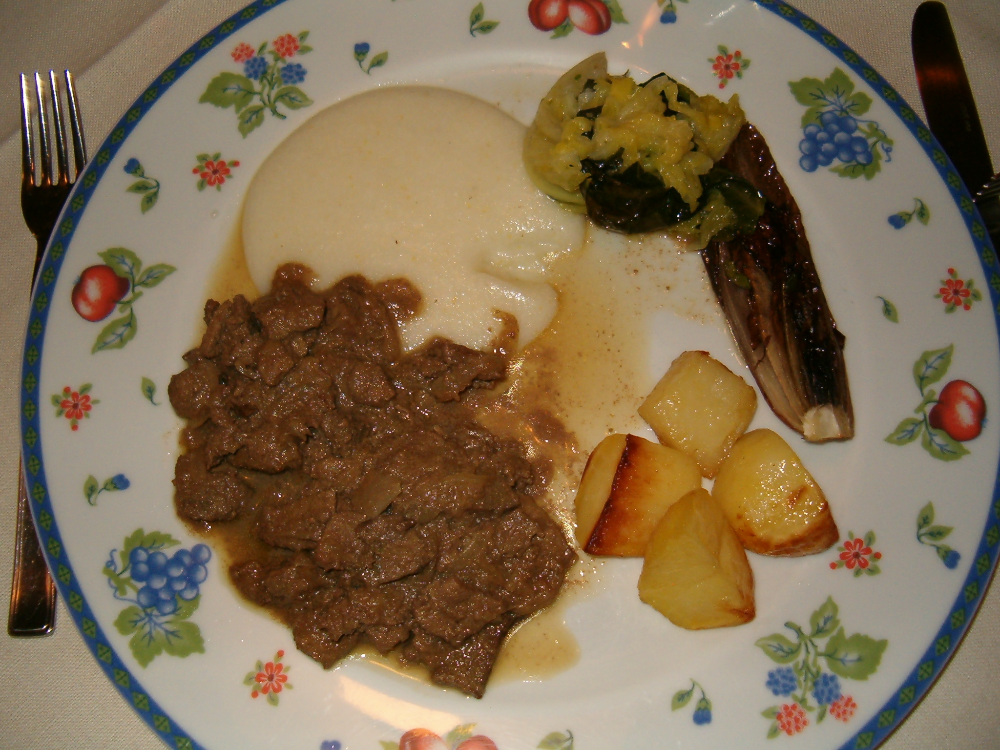 italian food Veal liver with withe polenta of Marano